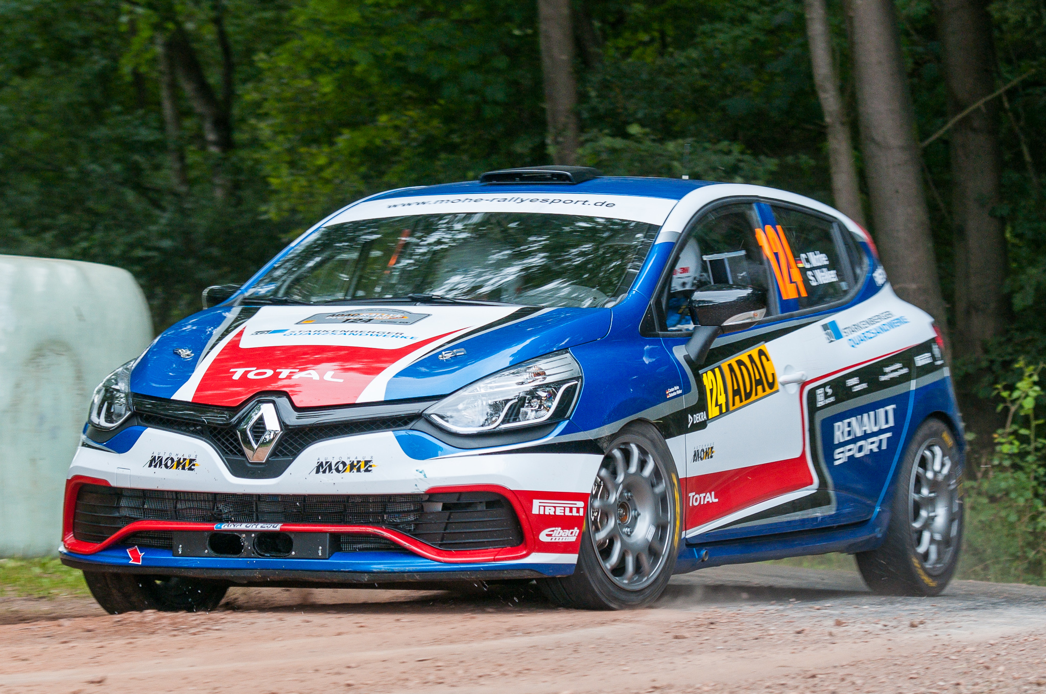 ADAC Rallye Deutschland 2014,Carsten Mohe,FIA,FIA World Rally Championship,Motorsport,Rally,Rallye,Renault Clio R3T,SS 5,Sebastian Walker,WP 5,WRC,Waxweiler 2